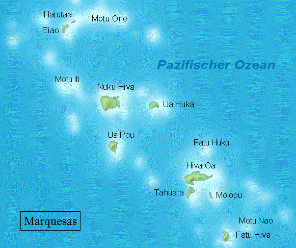 Map of Marquesas Islands, French Polynesia